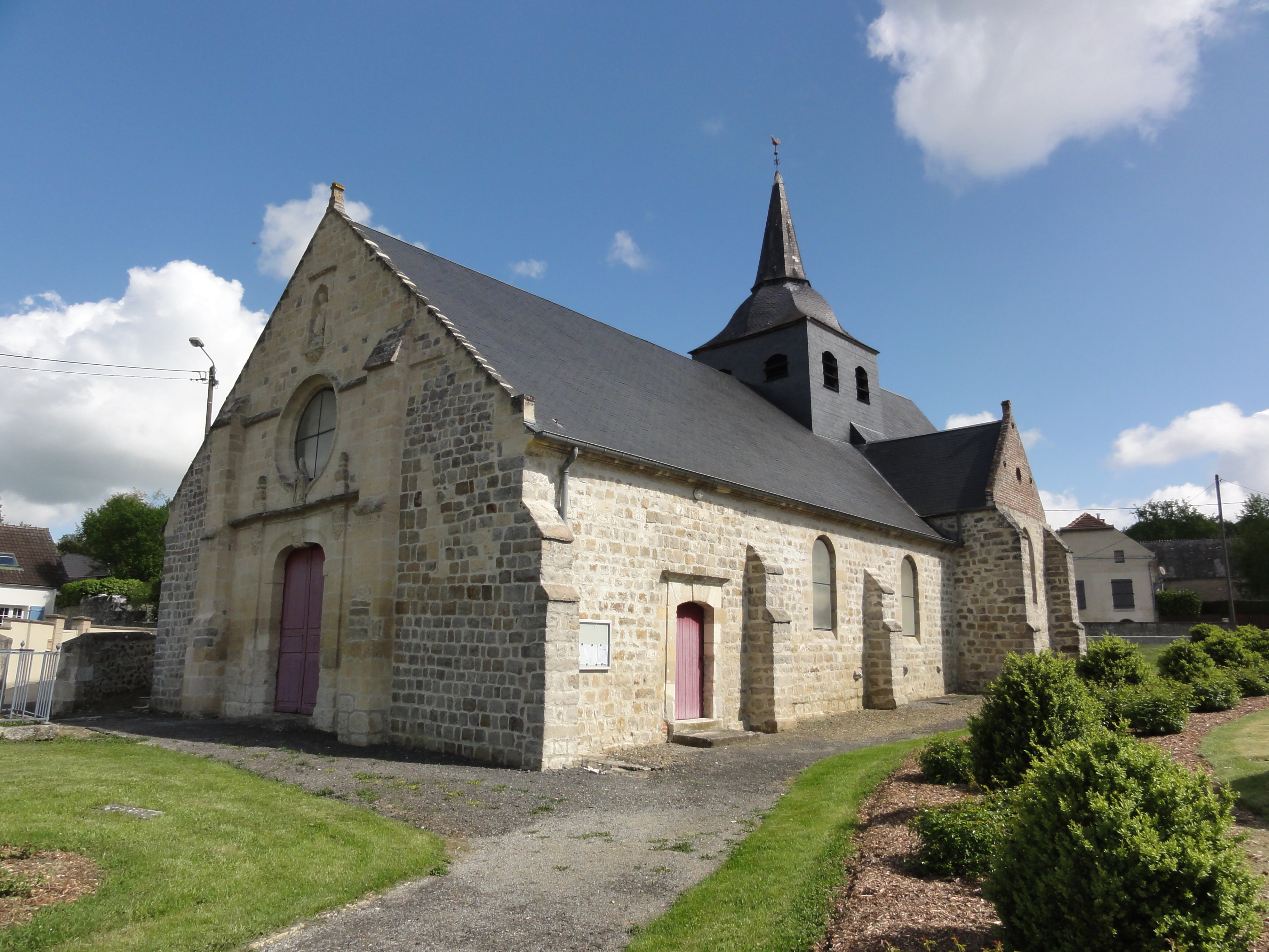 Cessières (Aisne) église